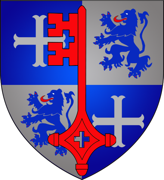 Coat of arms of the municipality of Betzdorf, Luxembourg